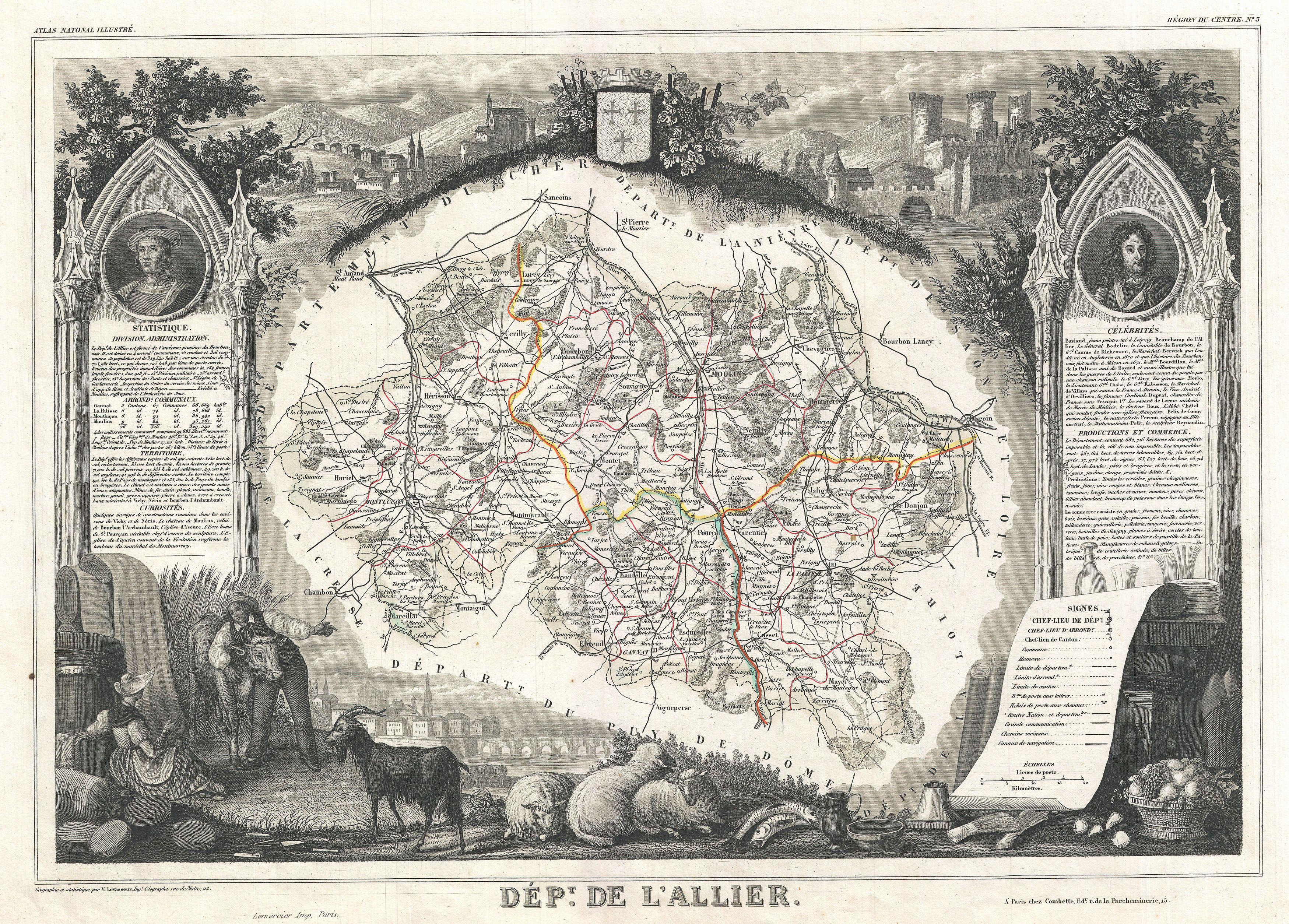 This is a fascinating 1857 map of the French department of l'Allier, France. This area of France is known for its production of Saint-Pourçain wine. It is also one of the rare places in Southern Europe where the freshwater grayling, known in French as ombre des rivières, occurs in a natural habitat. The whole is surrounded by elaborate decorative engravings designed to illustrate both the natural beauty and trade richness of the land. There is a short textual history of the regions depicted on both the left and right sides of the map. Published by V. Levasseur in the 1852 edition of his Atlas National de la France Illustree.